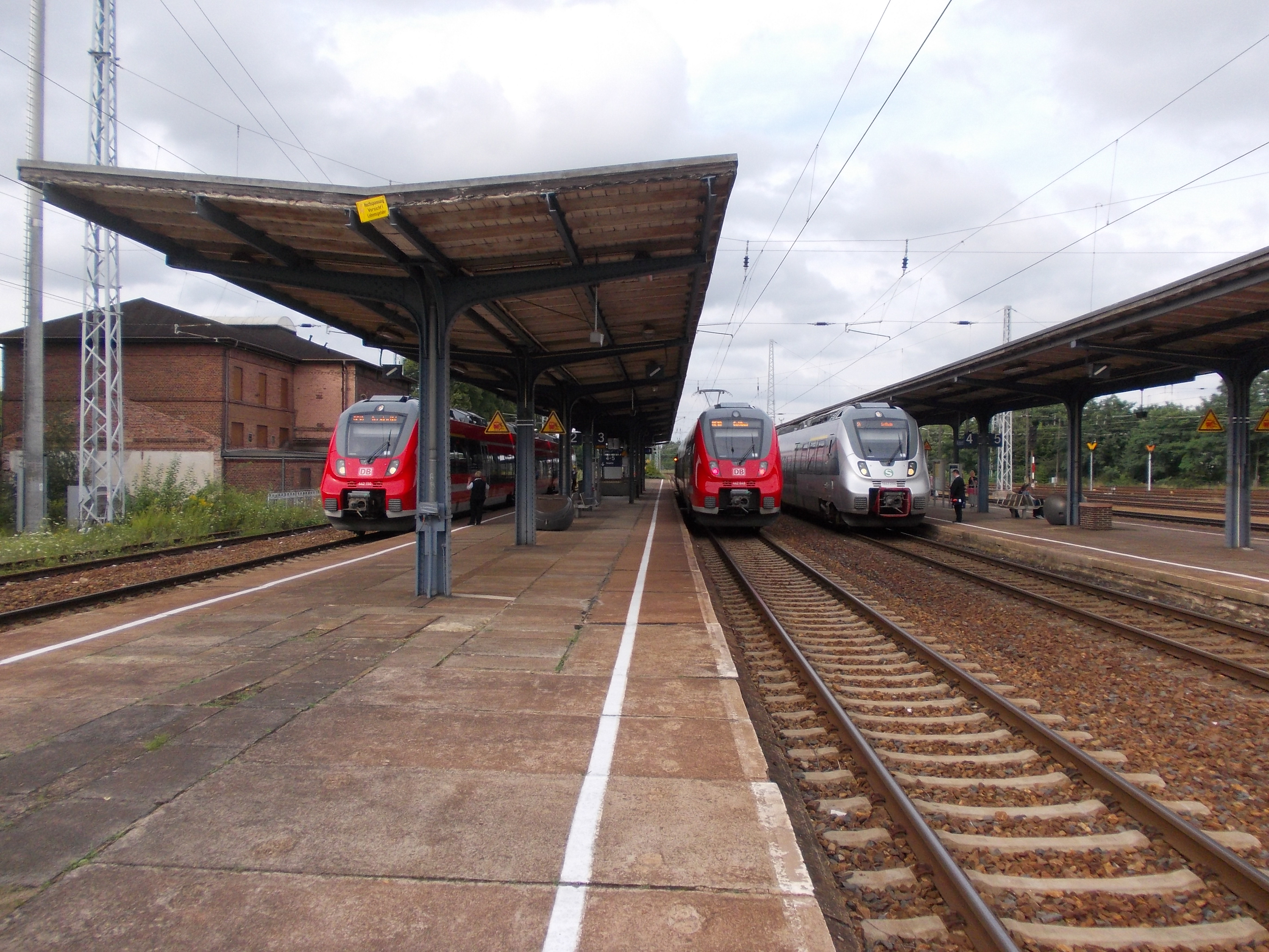 Three Bombardier Talent 2 electric multiple units of DB Regio at Ruhland railway station on 30 July 2014 at 6 p.m. At the left side there is RegionalExpress RE 18 from Cottbus to Dresden, in the middle RE 18 from Dresden to Cottbus and at the right side a train of S-Bahn Mitteldeutschland line S4 from Hoyerswerda to Geithain.